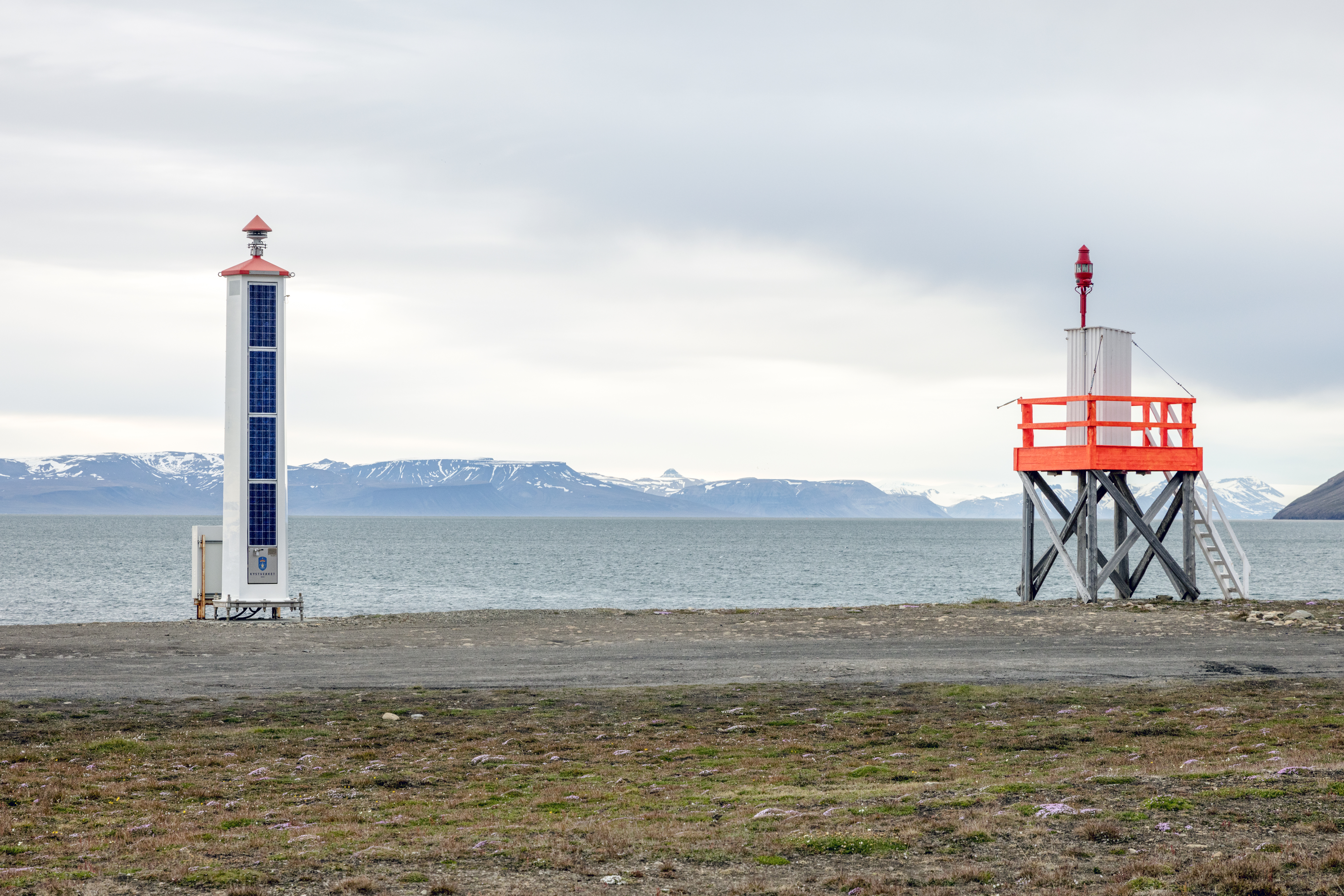 Lighthouse beacon, West Pynten, Svalbard.